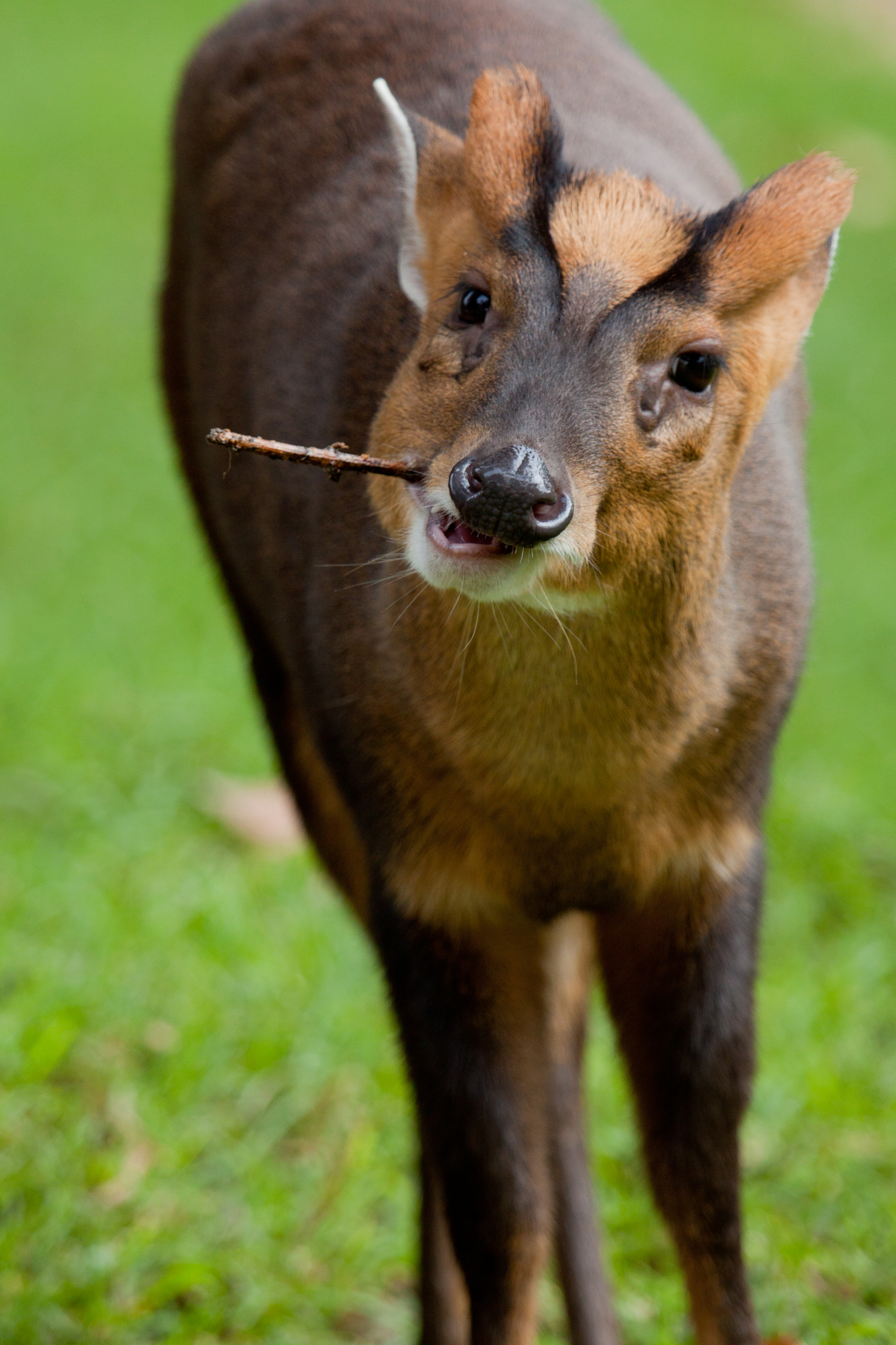 Reeves' Muntjac - muntiacus reevesi - Photography taken at the Lisbon Zoo